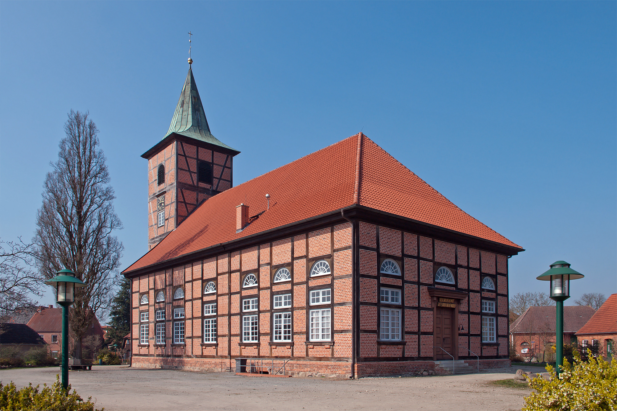 St. Mary's Church in Neuhaus upon Elbe (district Lüneburg, northern Germany).